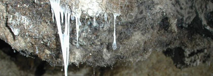 Picture of a Snotite, from NASA, taken in a terrestrial cave.